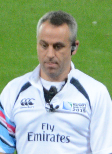 2015 Rugby World Cup match New Zealand vs Tonga at St. James’ Park, Newcastle upon Tyne.